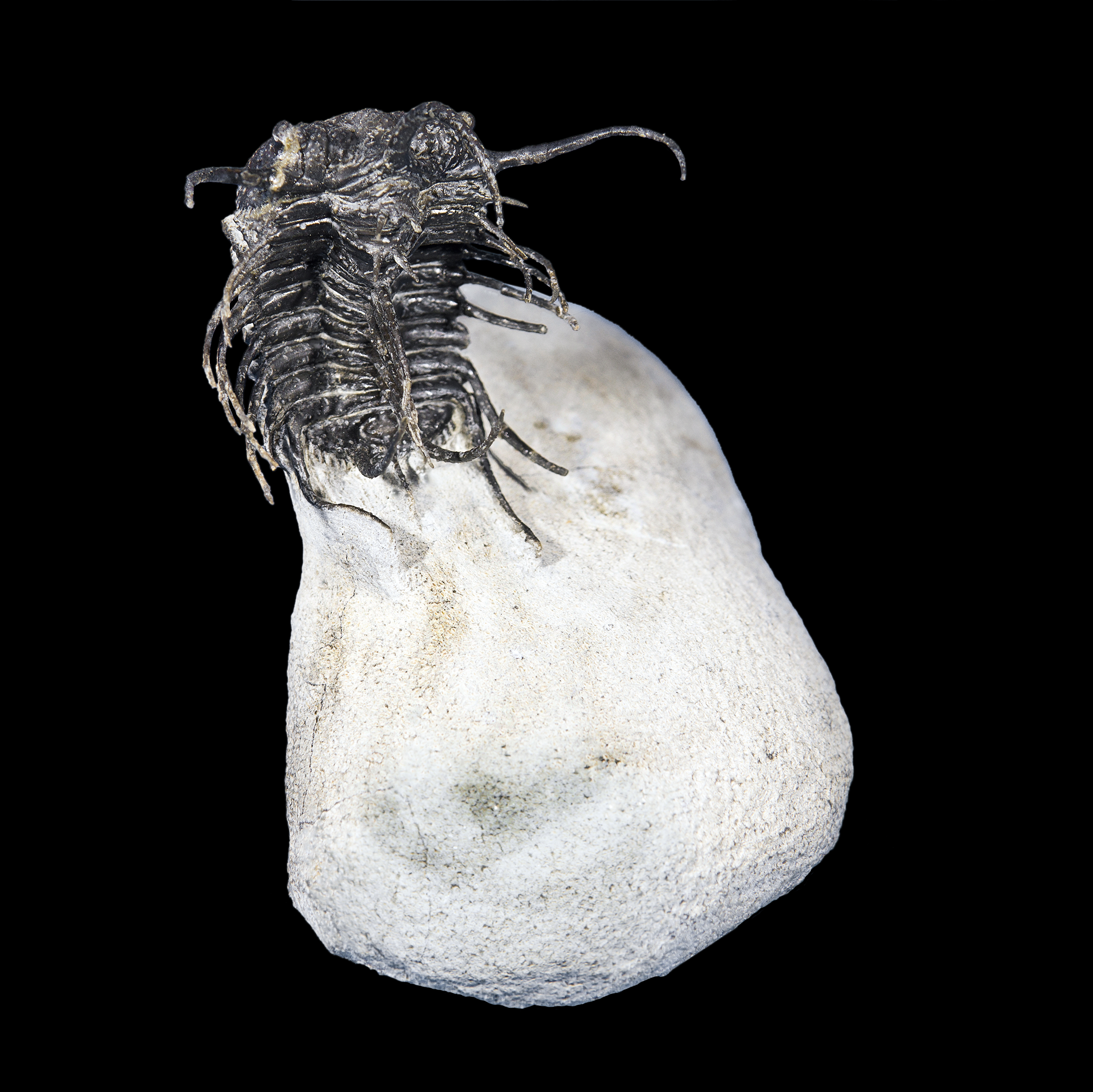 Koneprusia brutoni - Trilobite Stage :Devonian Locality : Djebel Oufaten Morocco Size of the trilobite : 6.5 cm